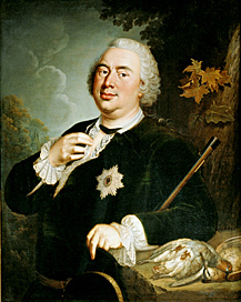 Portrait of Gustav Adolf von Gotter (1692-1762)